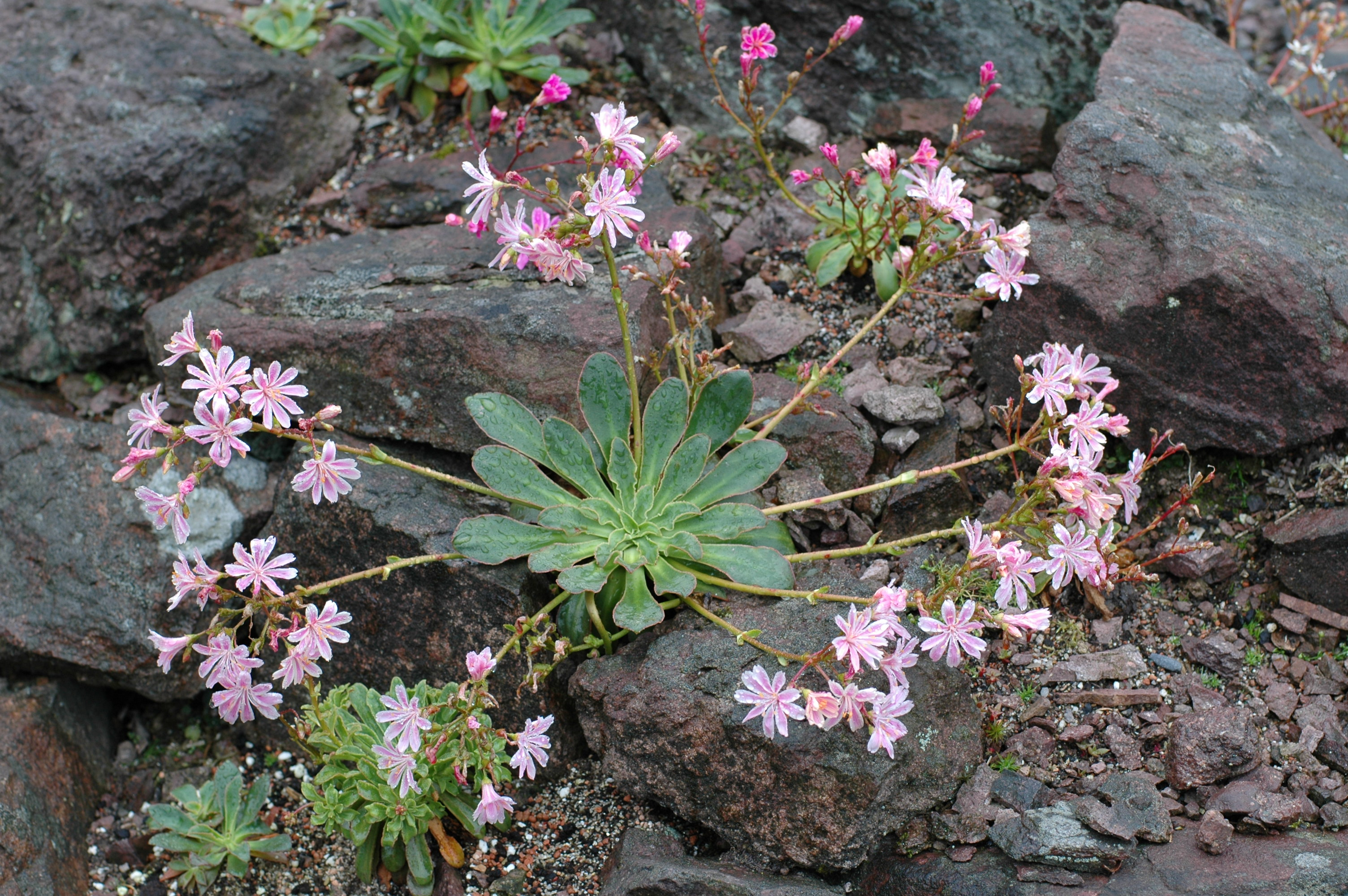 Habit of Lewisia cotyledon at Rennsteiggarten near Oberhof (Thuringia, Germany)